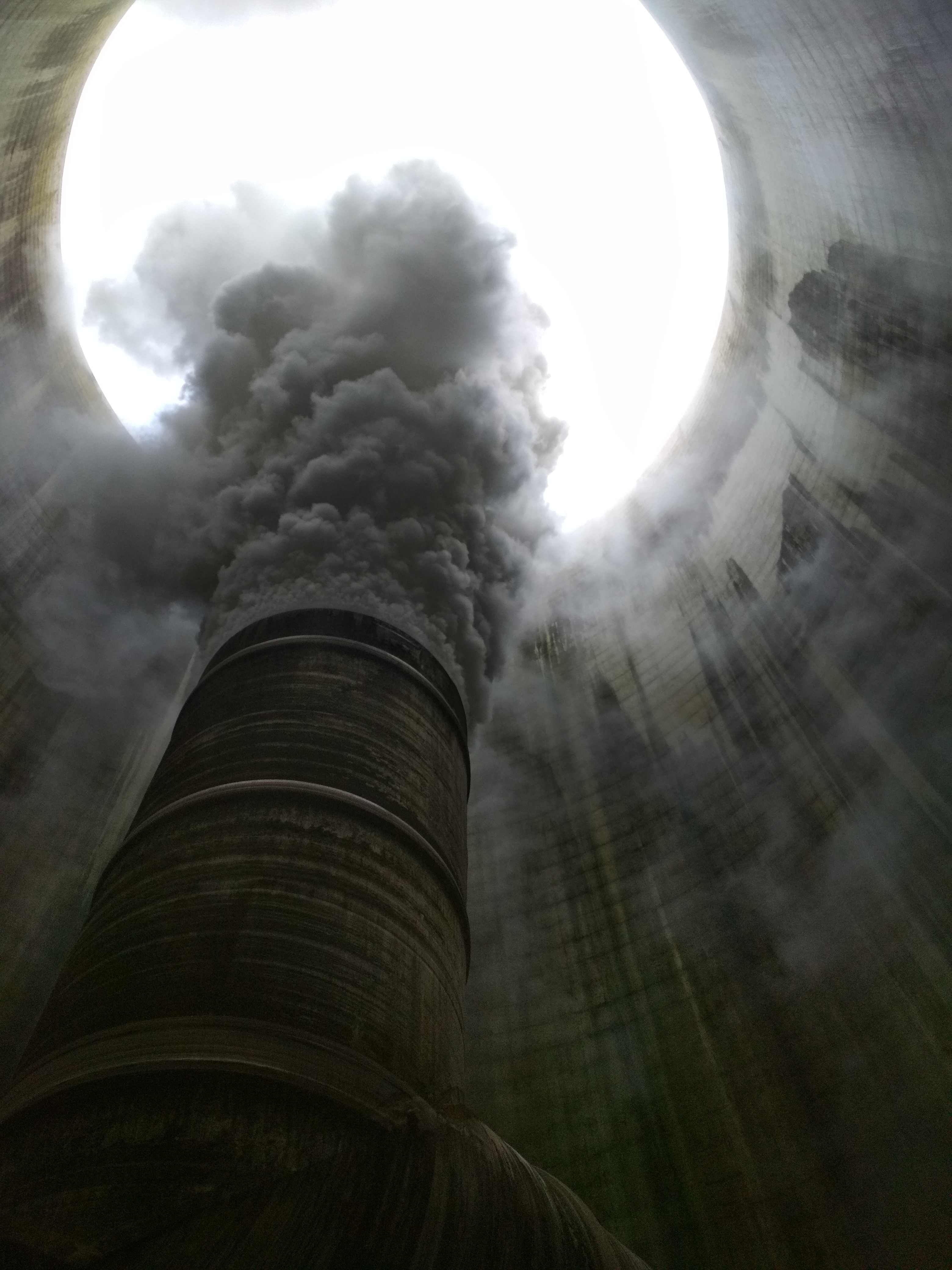 Interior of natural draft cooling tower, showing internal chimney in operation, Tušimice power plant